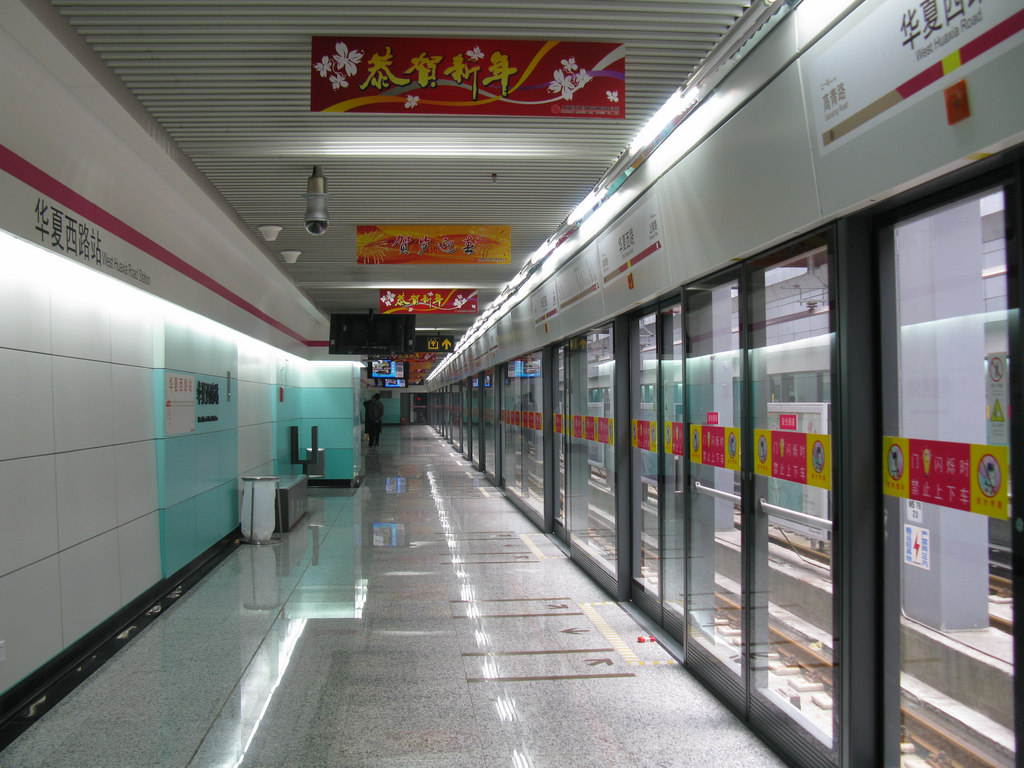 Line 6 Platform of West Huaxia Road Station, Shanghai Metro